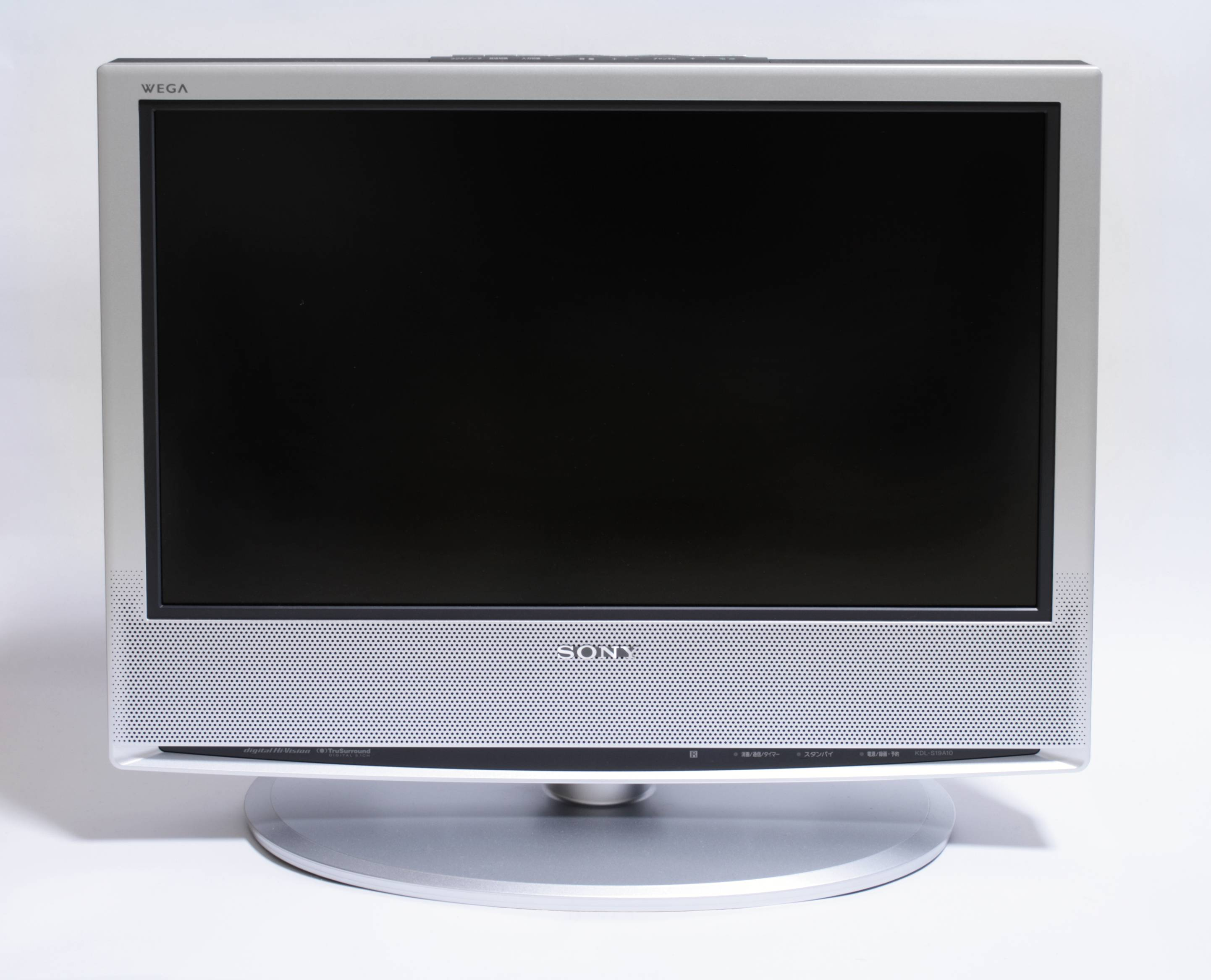 Sony WEGA KDL-S19A10 LCD TV.